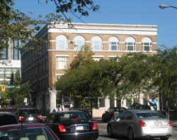 411 Seniors Centre building, Vancouver, British Columbia, Canada